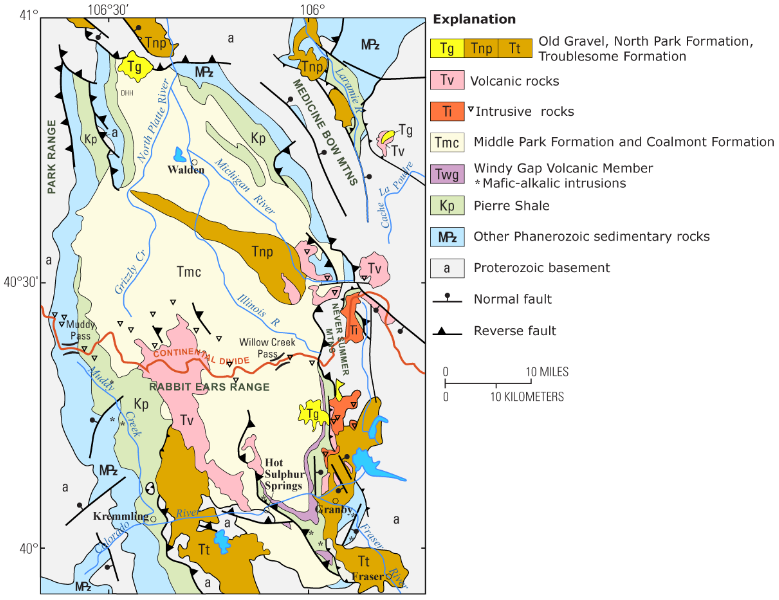 USGS North Park Basin geologic map